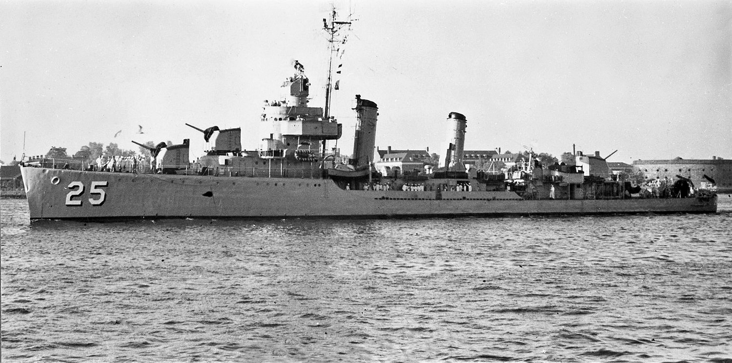 The U.S. Navy destroyer-minesweeper USS Fitch (DMS-25) underway. Fitch was the last Gleaves-class DMS to be decommissioned on 24 February 1956.